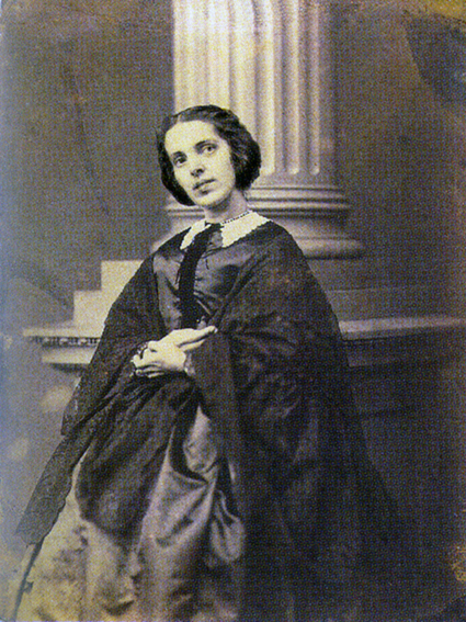 The german painter Amalia Murtfeldt (1828–1888) from Bremen in the year 1860.